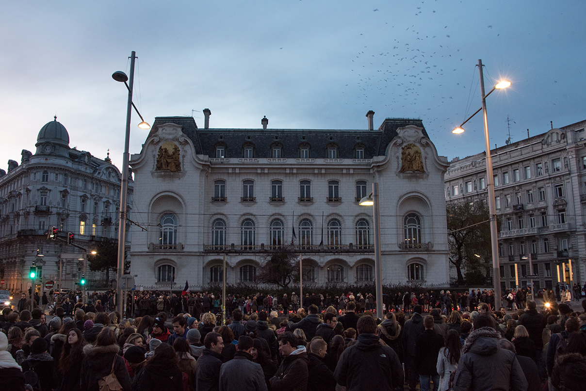 Solidarity with the victims of the Paris attacks in November 2015 in Vienna (in front of the French Ambassy)